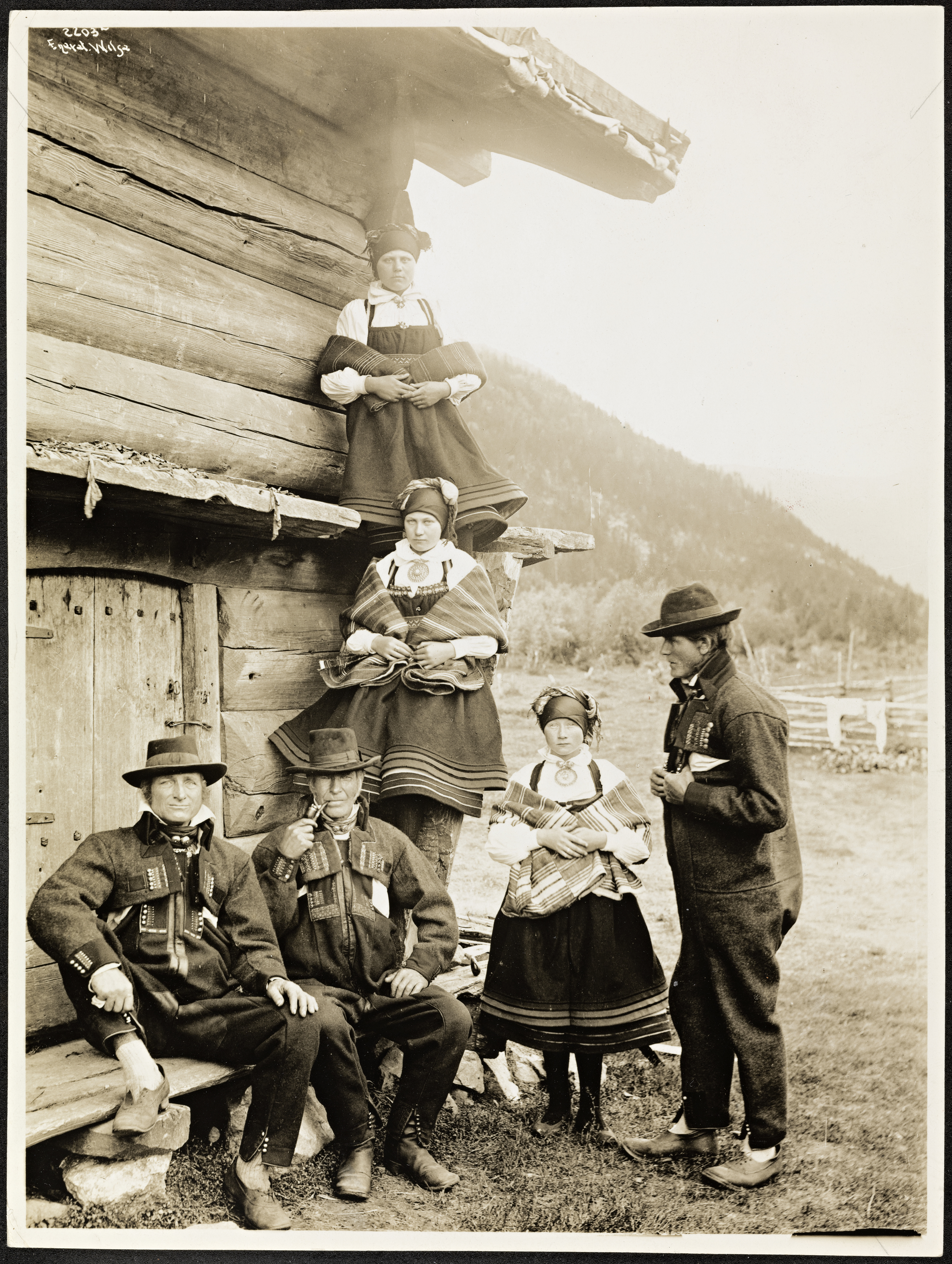 Dato / Date: ca. 1885-1890 Sted / Place: Aust-Agder, Bygland Fotograf / Photographer: Axel Lindahl (1841-1906) Digital kopi av original / Digital copy of original: s/h papirpositiv Eier / Owner Institution: Nasjonalbiblioteket / National Library of Norway Lenke / Link: Bildesignatur / Image Number: blds_07446